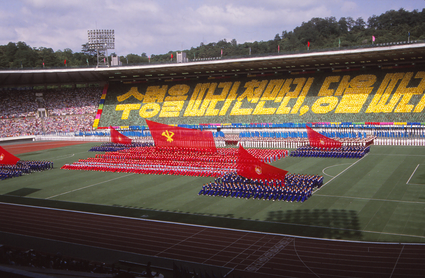 The Opening Ceremony taking place.